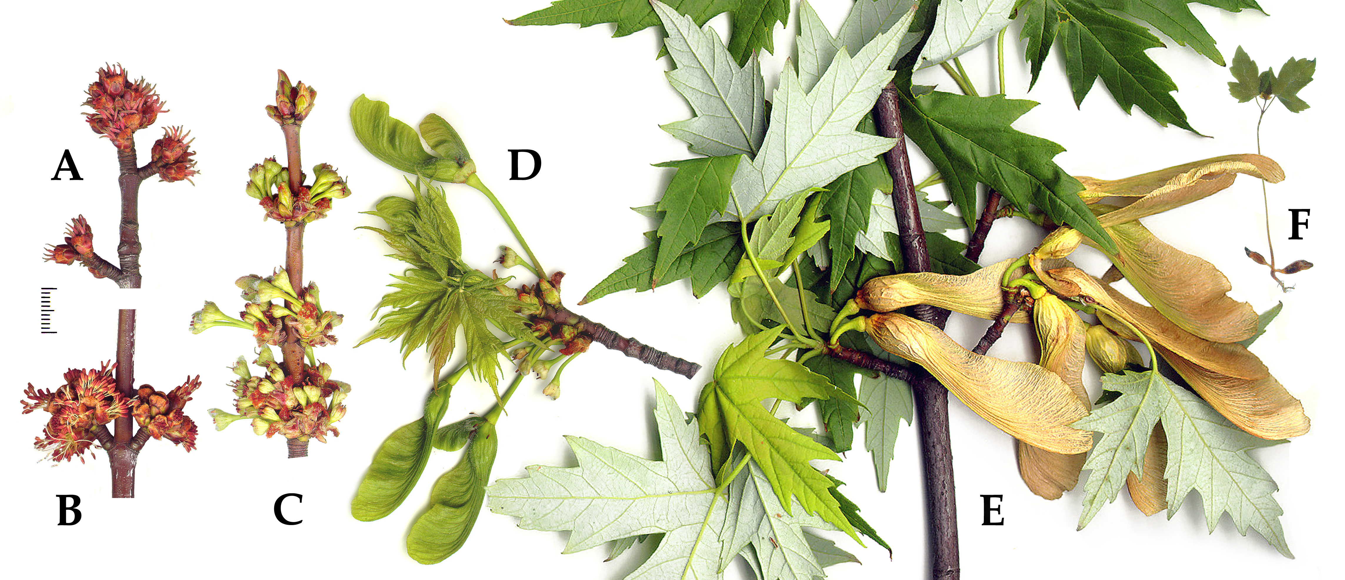 Acer saccharinum phenology